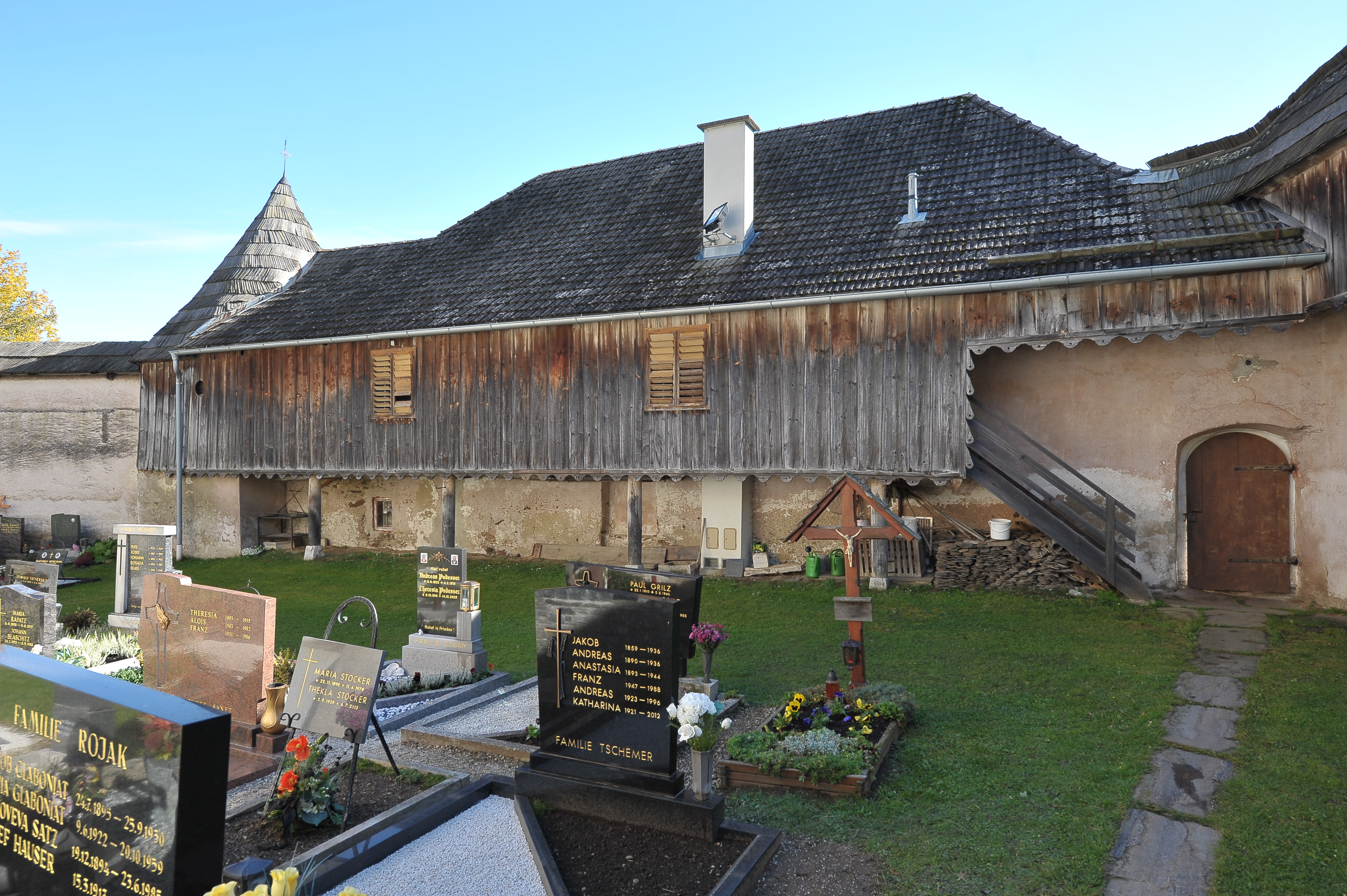 Rectory in Untergreutschach #5, market town Griffen, district Völkermarkt, Carinthia, Austria, EU